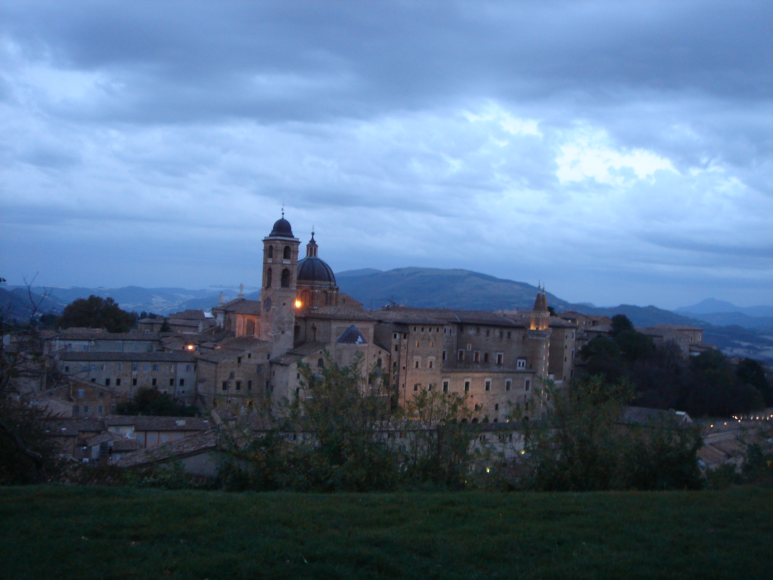 Urbino at night, view from the fortress.